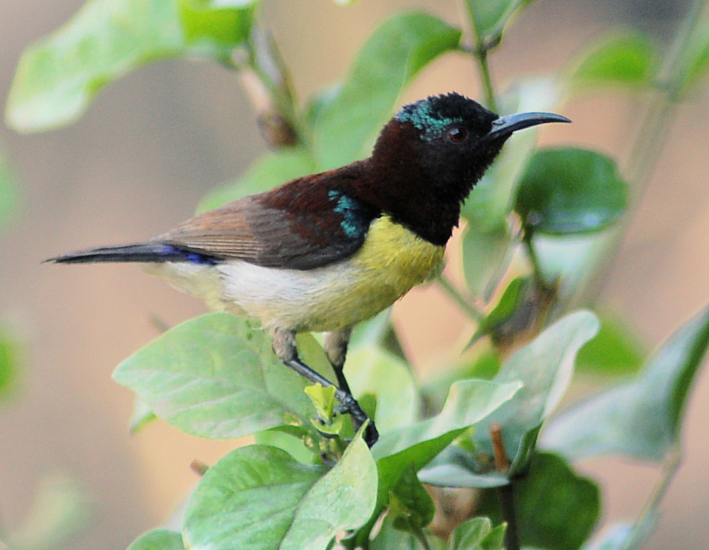 Purple Rumped Sunbird Leptocoma zeylonica